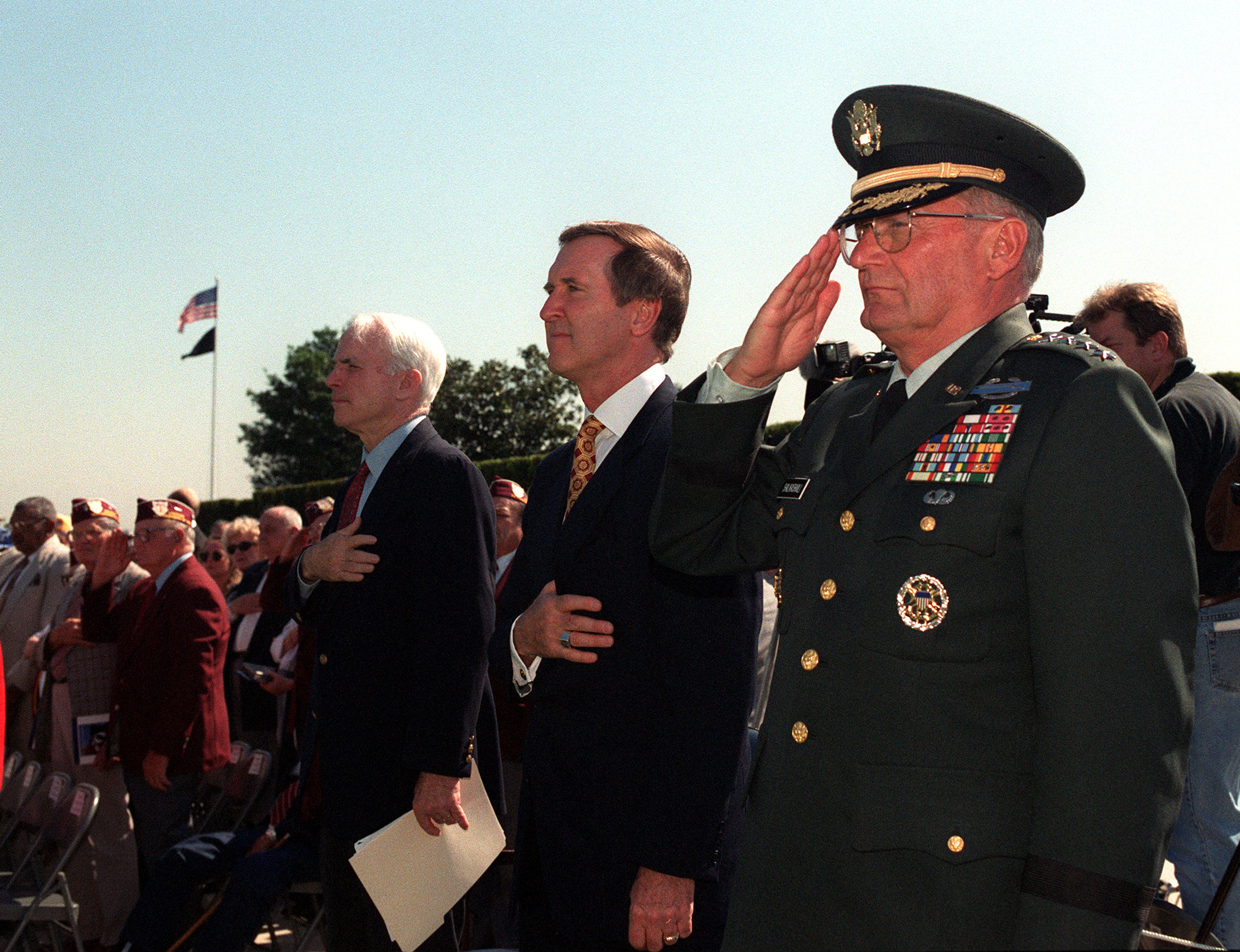 Senator John McCain (left), Secretary of Defense William S. Cohen (center) and Chairman, Joint Chiefs of Staff Gen. John M. Shalikashvili (right), U.S. Army, salute during the presentation of colors at the National POW/MIA Recognition Day ceremony at the Pentagon on Sept. 19, 1997.